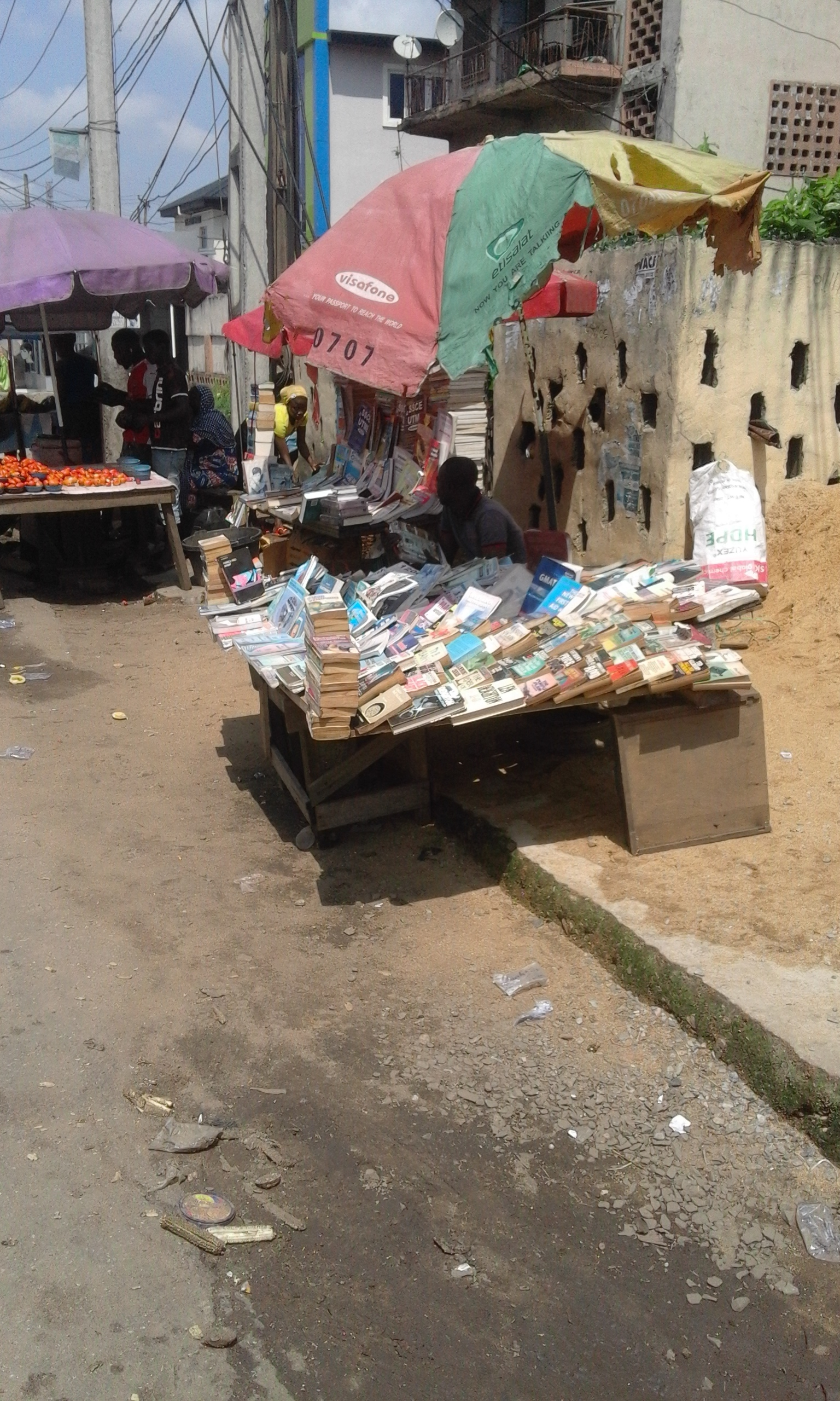 This is an image of "African people at work" from Nigeria